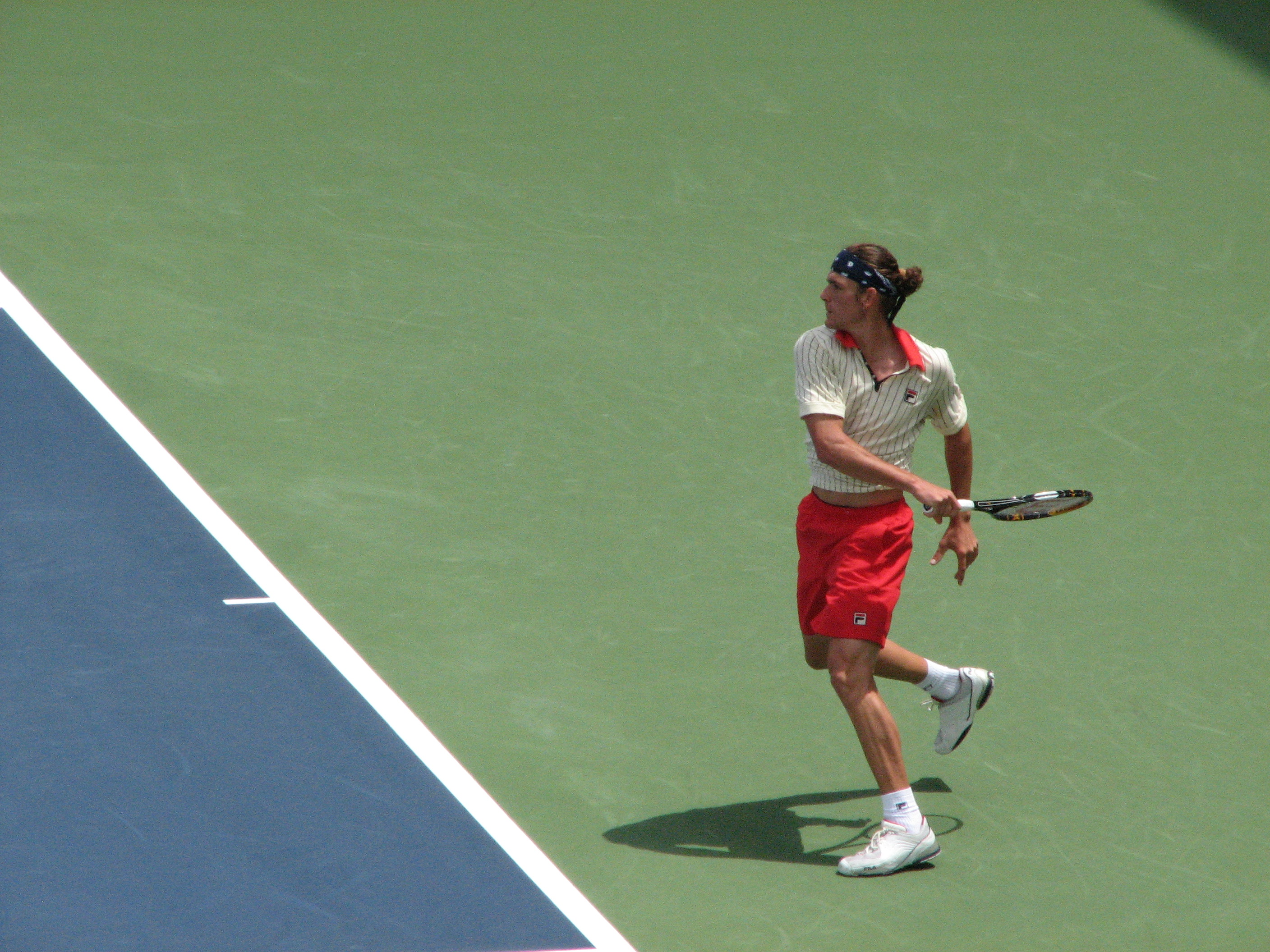 Frank Dancevic against Sam Querrey in the 2009 Indianapolis Tennis Championships semifinals